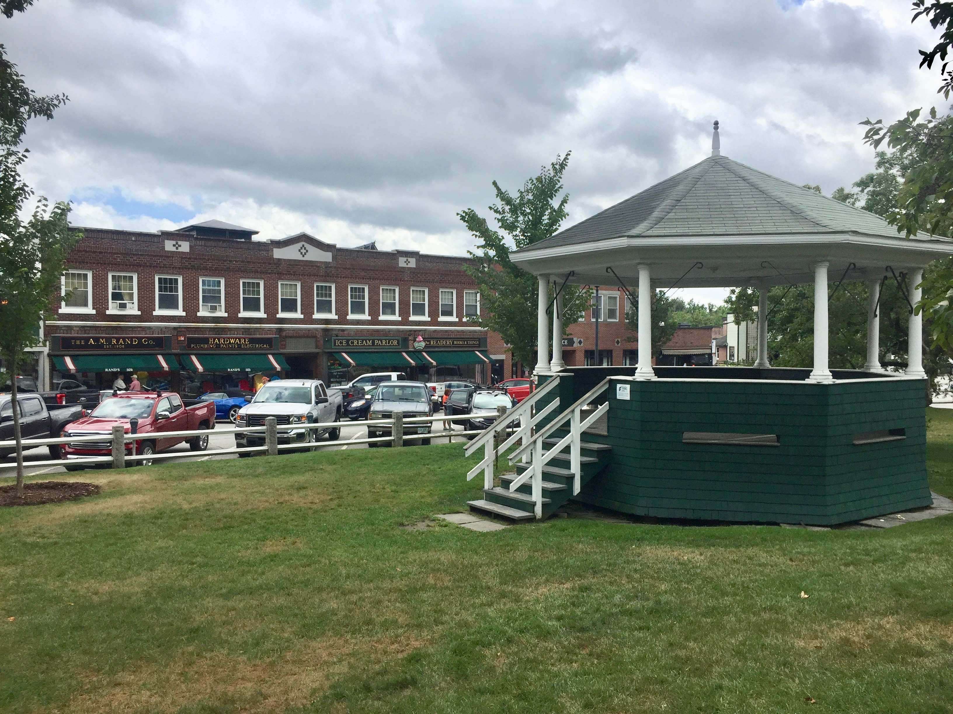 The town oval in Plymouth. Photo by Ken Gallager, July 2018.